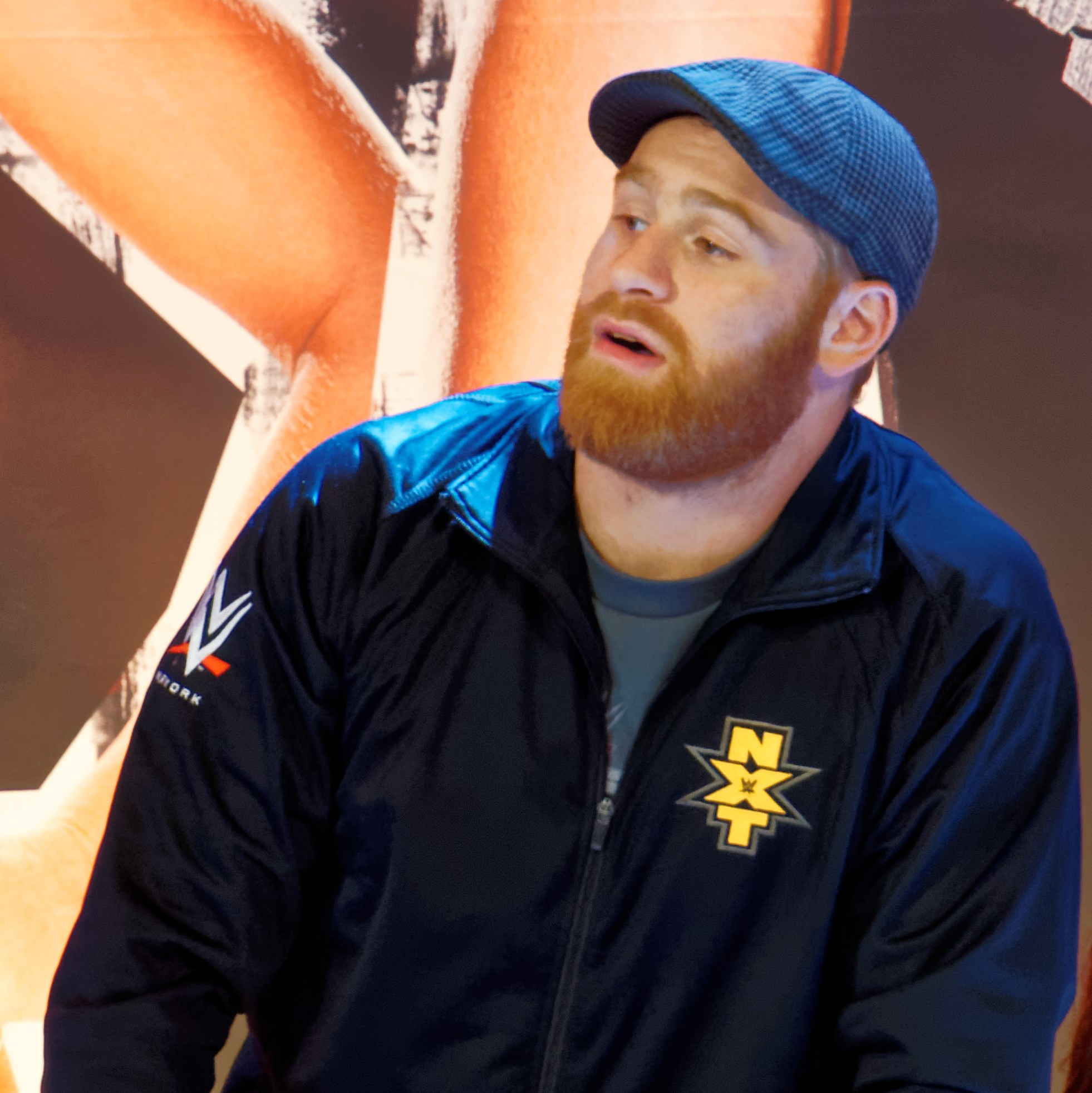 Sami Zayn at WM31 Axxess in San Jose, California in March 2015